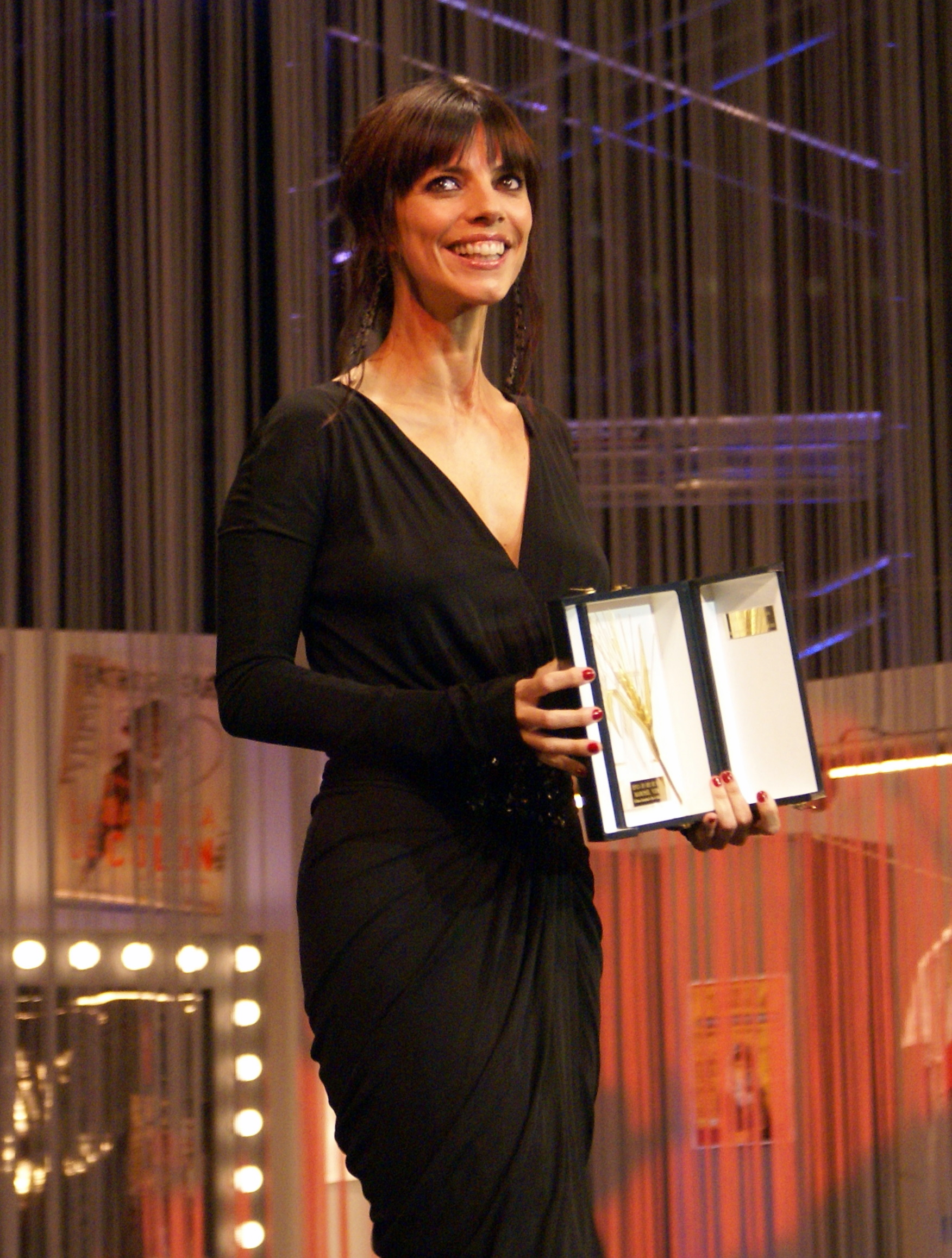 Maribel Verdú, Spanish actress, holding the Golden Spike of the 2011 Seminci.